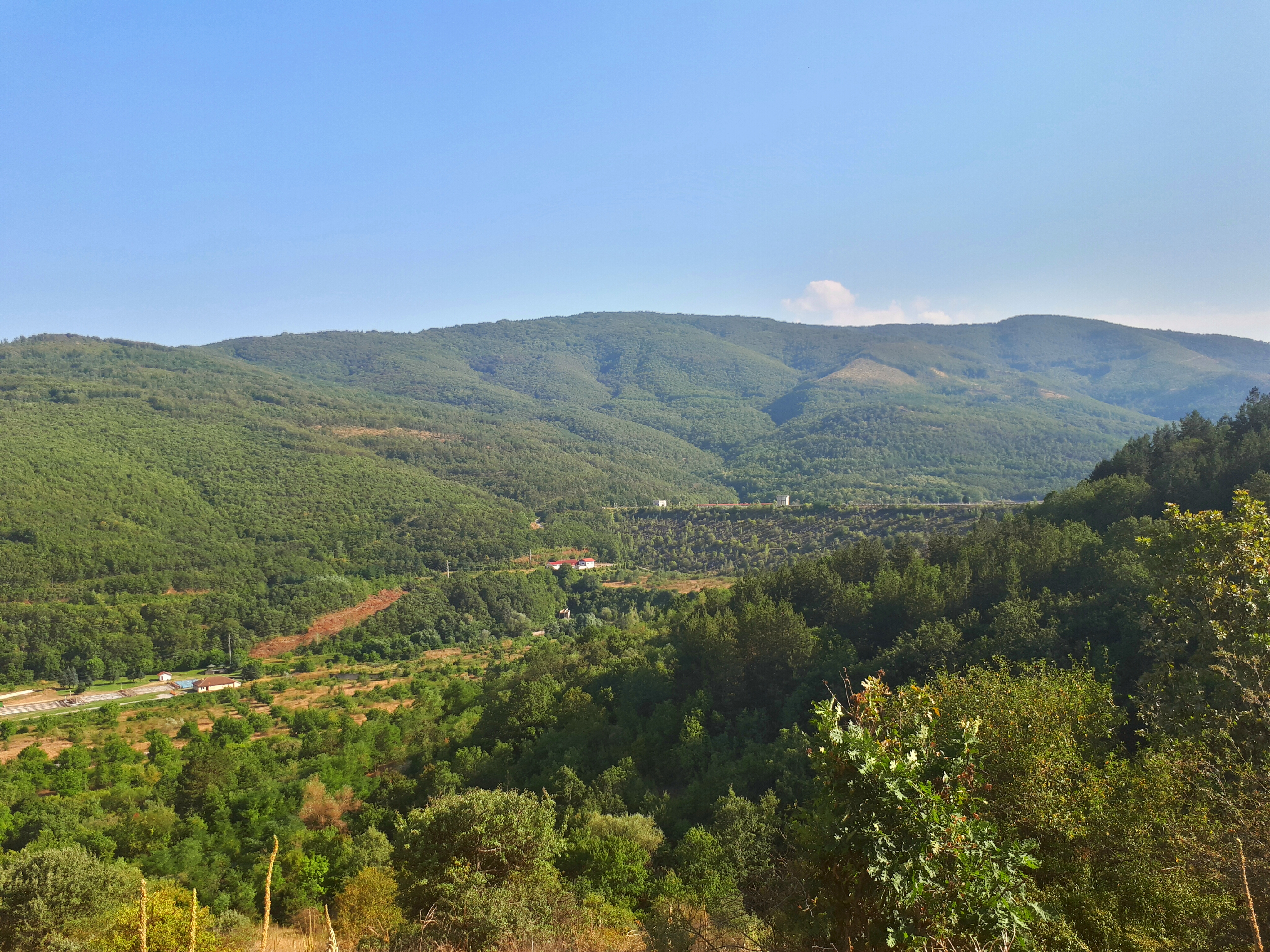 Part of the Veloexpedition in 2017